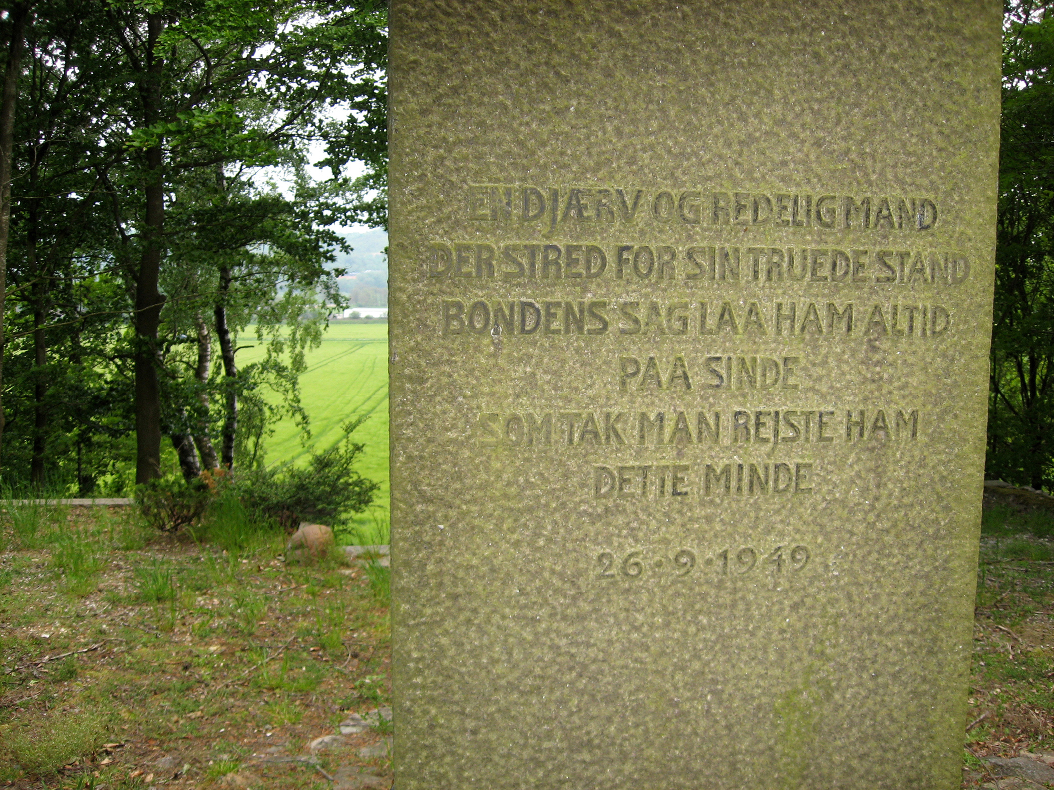 Monument for dane Knud Bach (1871-1948), founder of Landbrugernes Sammenslutning. Created by Danish sculptor Elias Ølsgaard. Placed at Rønge east of Bjerringbro in Jutland, Denmark.